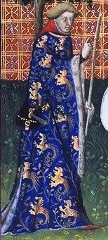 Gaston III of Foix-Béarn (Gaston Phoebus) as depicted in Livre de chasse